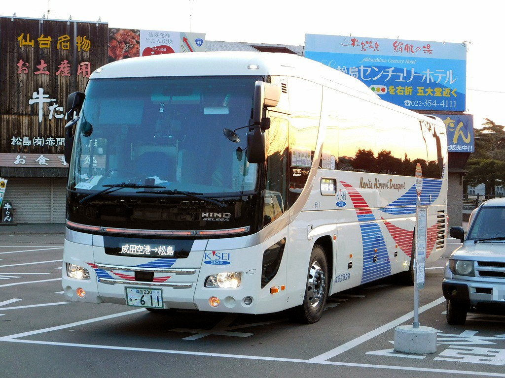 Narita Airport Transport Highwaybus for Sendai (Pola Star) at Matsushima-Kaigan station